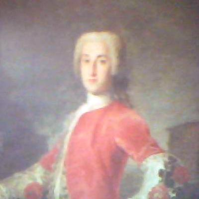 George Lewis Coke by Pompeo Batni as reproduced in Melbourne 1820-1875 A Diary by John Joseph Briggs Ed by Philip Heath pub. Derbyshire Hist Research Group 2005, ISBN 0-903463-78-4